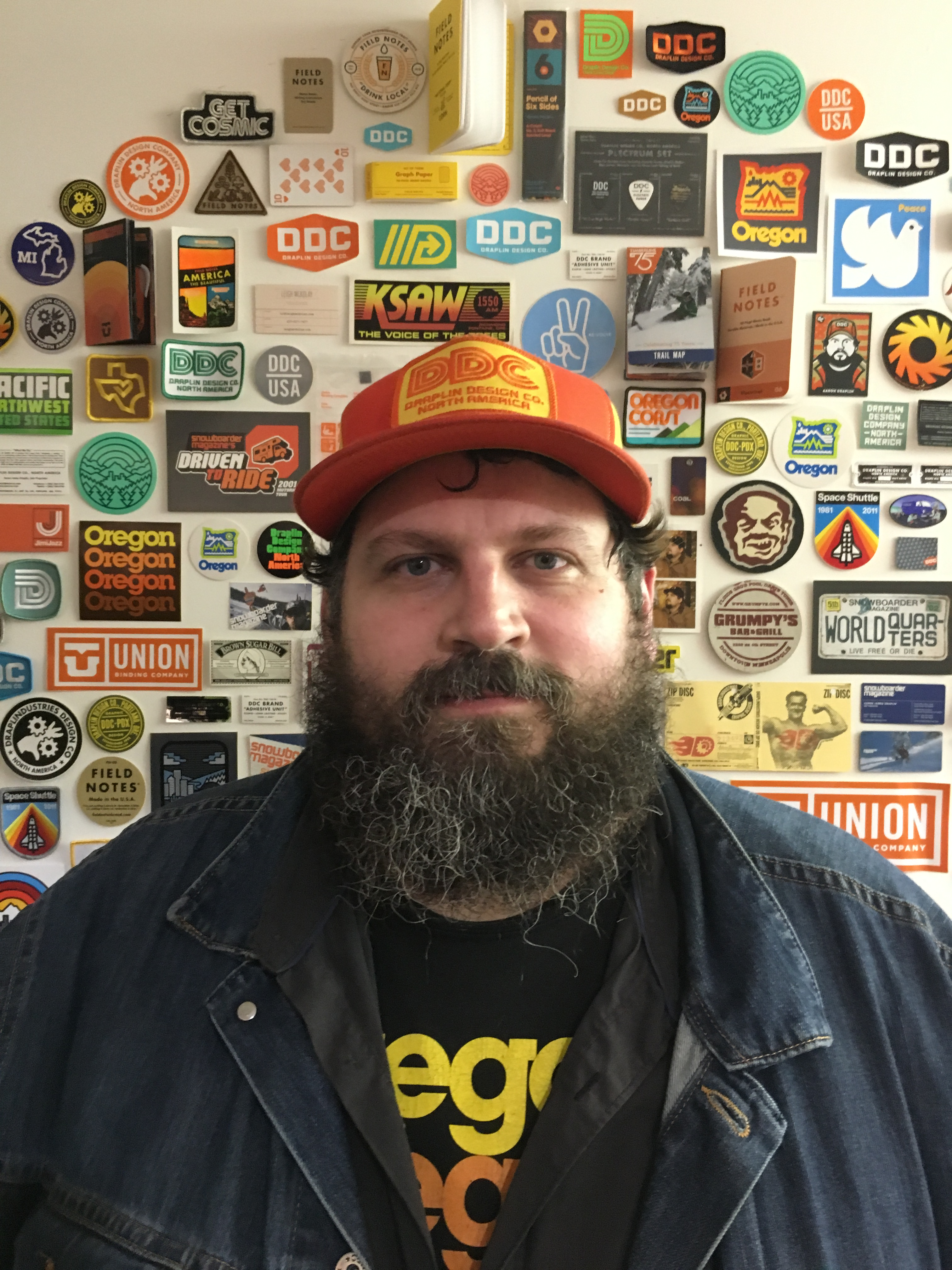 Aaron Draplin at this March 2016 exhibit at Mule Gallery in San Francisco